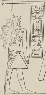 Prince Ranefer represented before his accession to the throne as Neferirkare Kakai on a relief from the mortuary complex of his father Sahure. The royal title of Neferirkare Kakai was added later, during his reign. Drawing by Ludwig Borchardt.